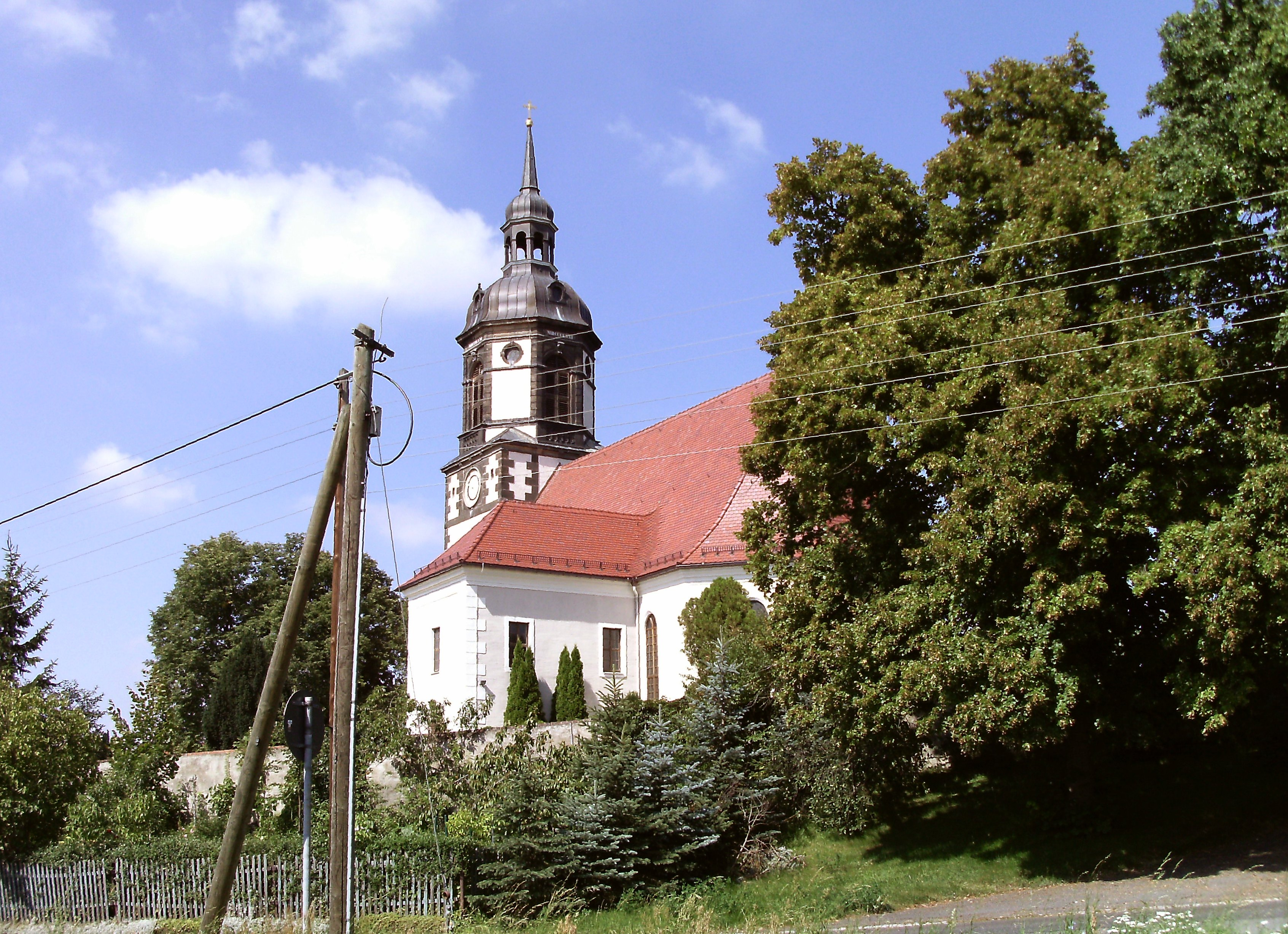 Blosswitz church (Stauchitz, Meissen district, Saxony)